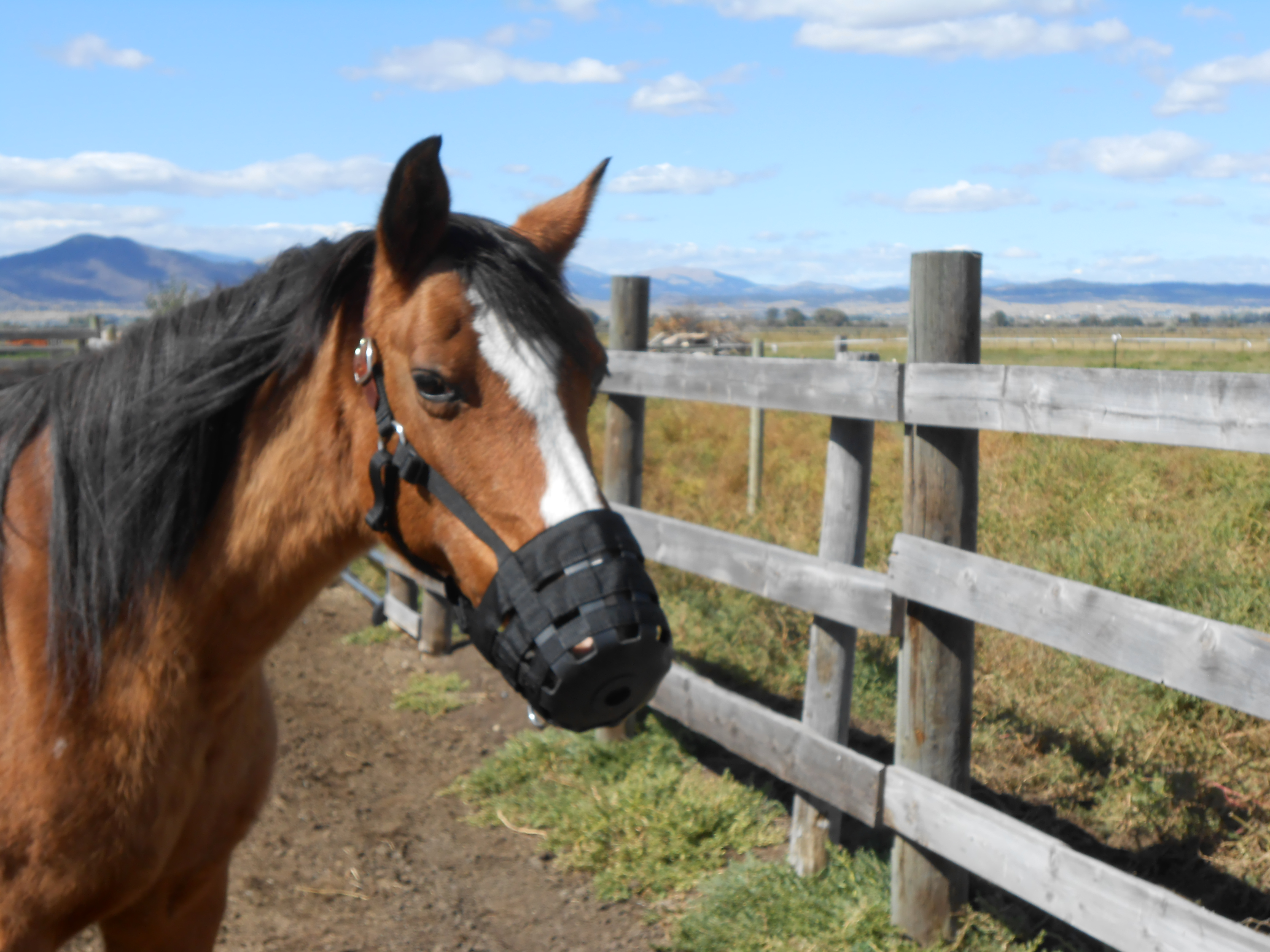 A grazing muzzle, prevents horses from overeating when on pasture. It has a small hole in the bottom that allows a small amount of grass to be consumed, thus meeting the horse's need to graze, and it also allows water to be consumed. It has a breakaway crownpiece on the headstall so that a horse is not trapped if the muzzle catches on an object.